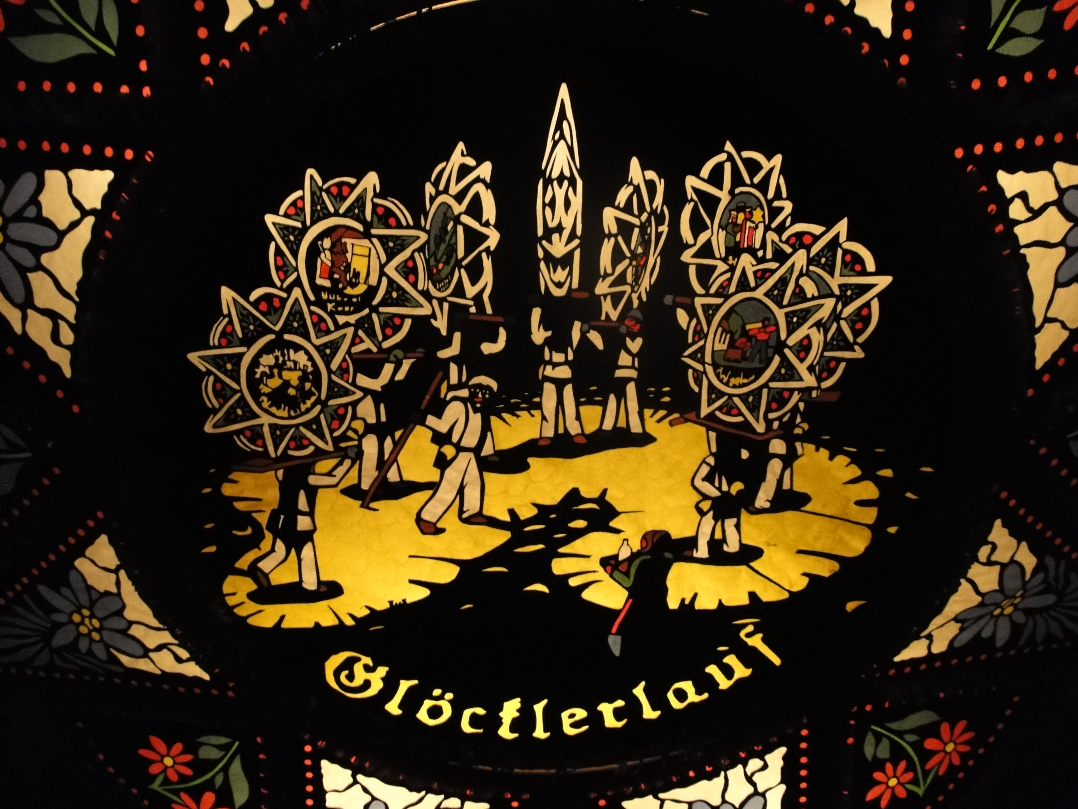 A cap from the traditional Austrian "Glöckler"